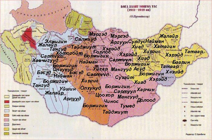 Prevalence of Mongolia and the Mongolian tribes